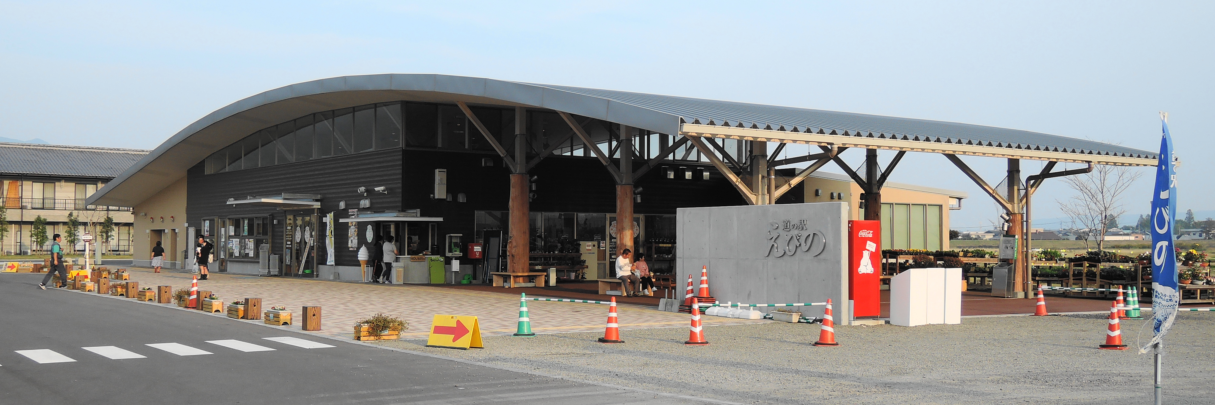 Road to station Ebino,Miyazaki prefecture,Japan